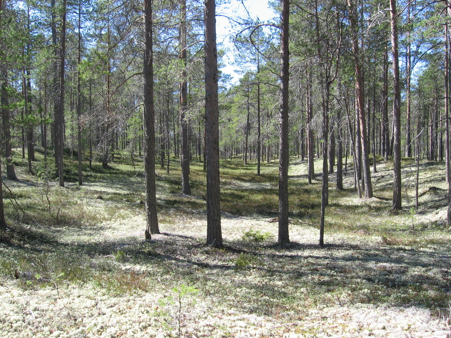 A forest in Hailuoto, Finland